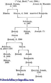 Pedigree of the Duran Family